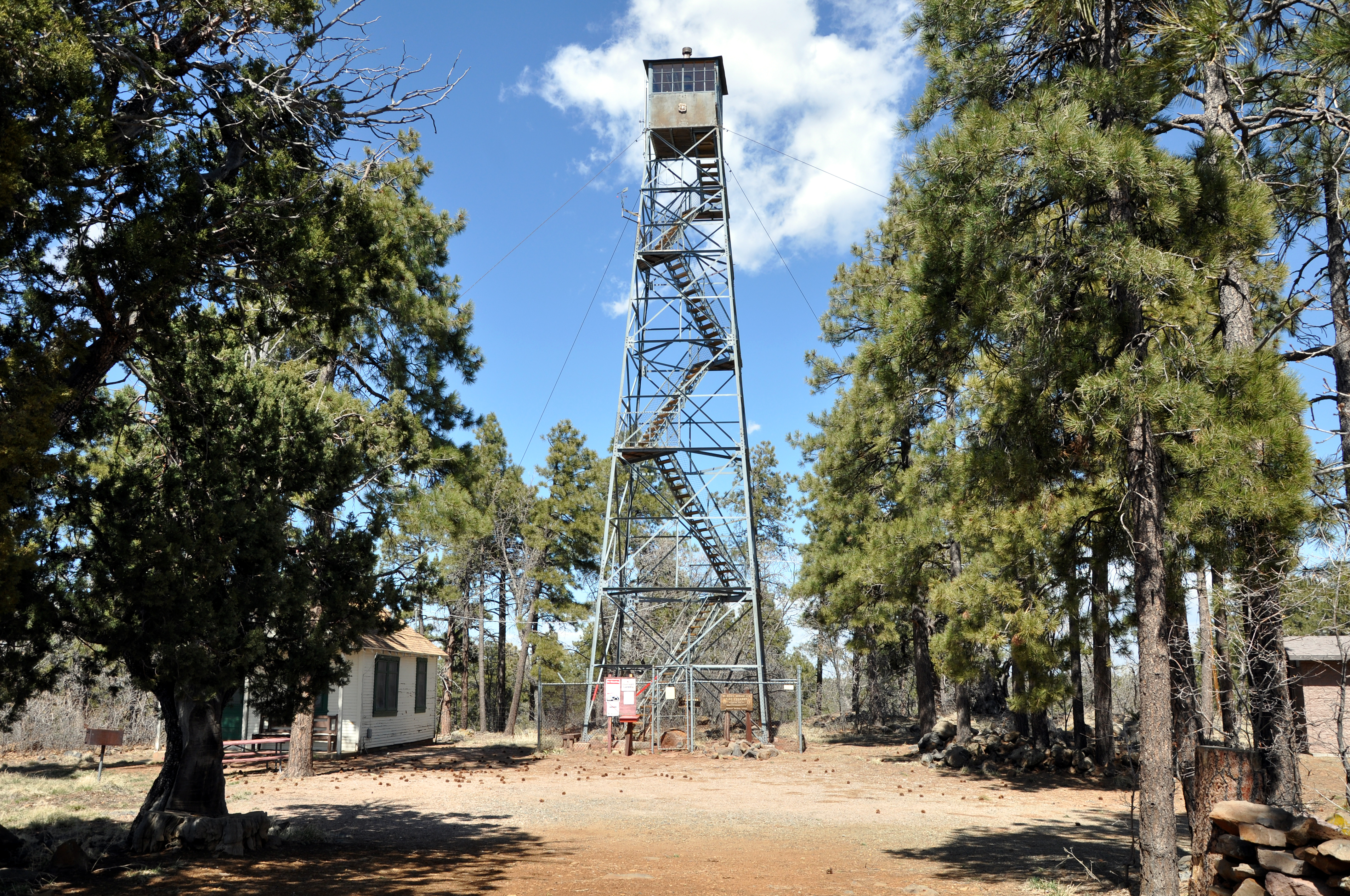 Mingus Lookout Complex on Mingus Mountain near Jerome in the U.S. state of Arizona.